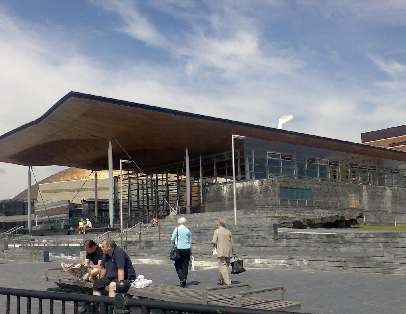 Welsh Assembly